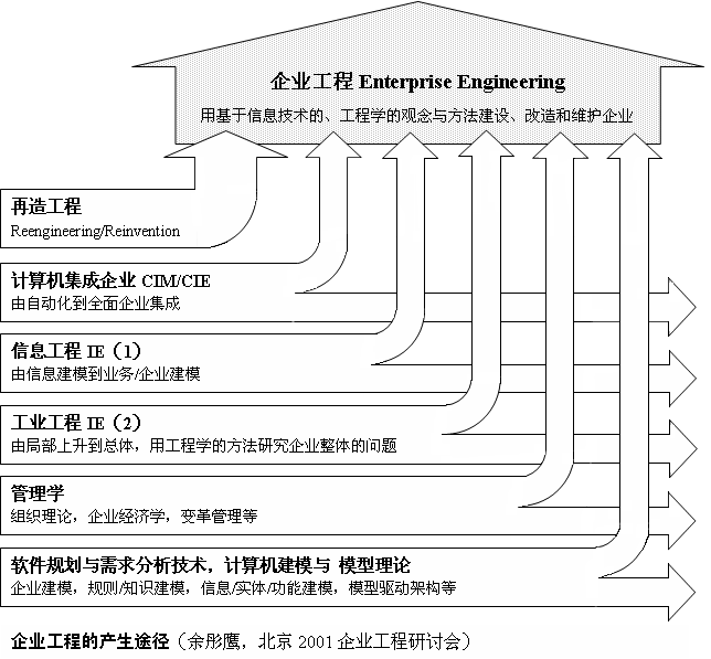 Emergence of Enterprise Engineering (YU Tong-Ying, Beijing 2001 Enterprise Engineering Conference)